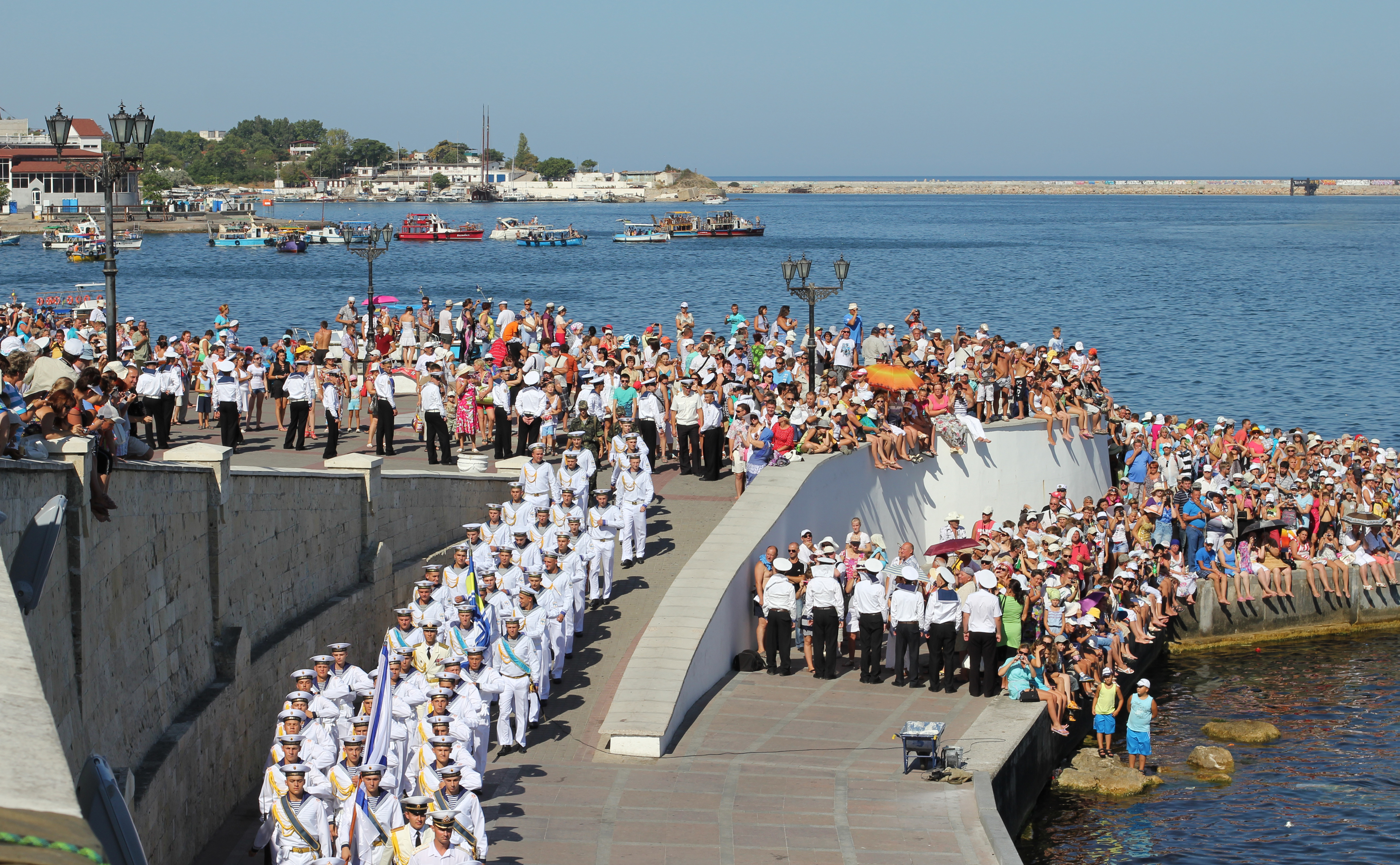 Joint celebration of The Navy Day in Russia and Ukraine. Sevastopol bay. Dress rehearsal.